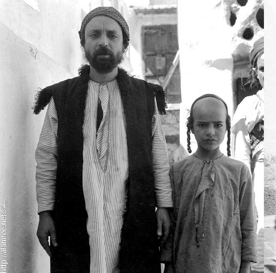 Meysha Abyadh (L), silversmith and goldsmith; boy: Suleiman Seri (R). Photo taken in 1937